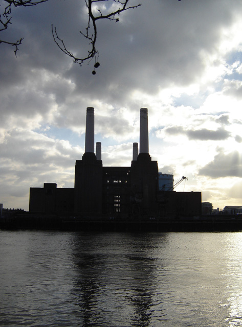 Battersea power station, London. 21 January 2006. Photographer: Fin Fahey.